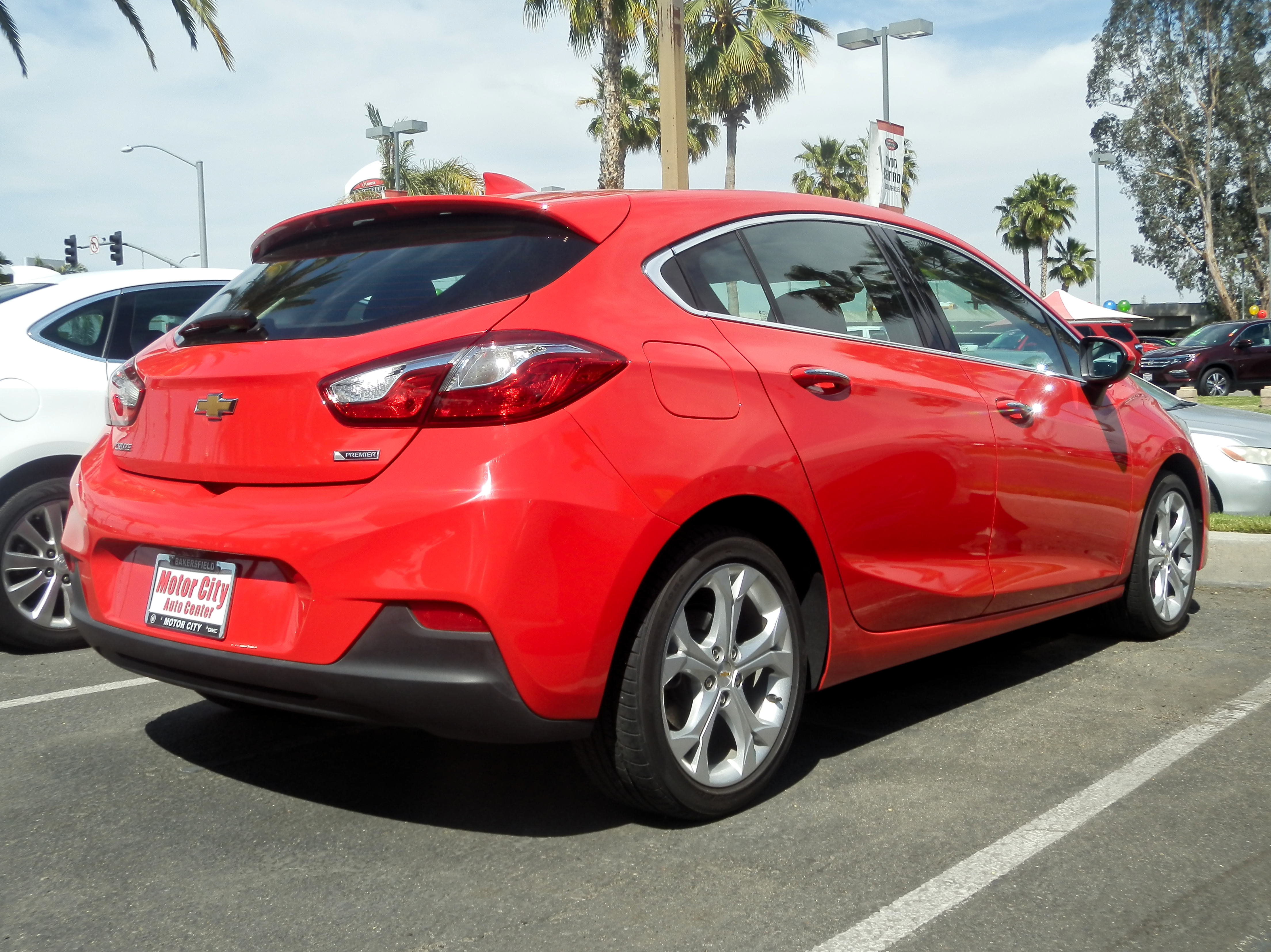 Chevrolet Cruze in Bakersfield